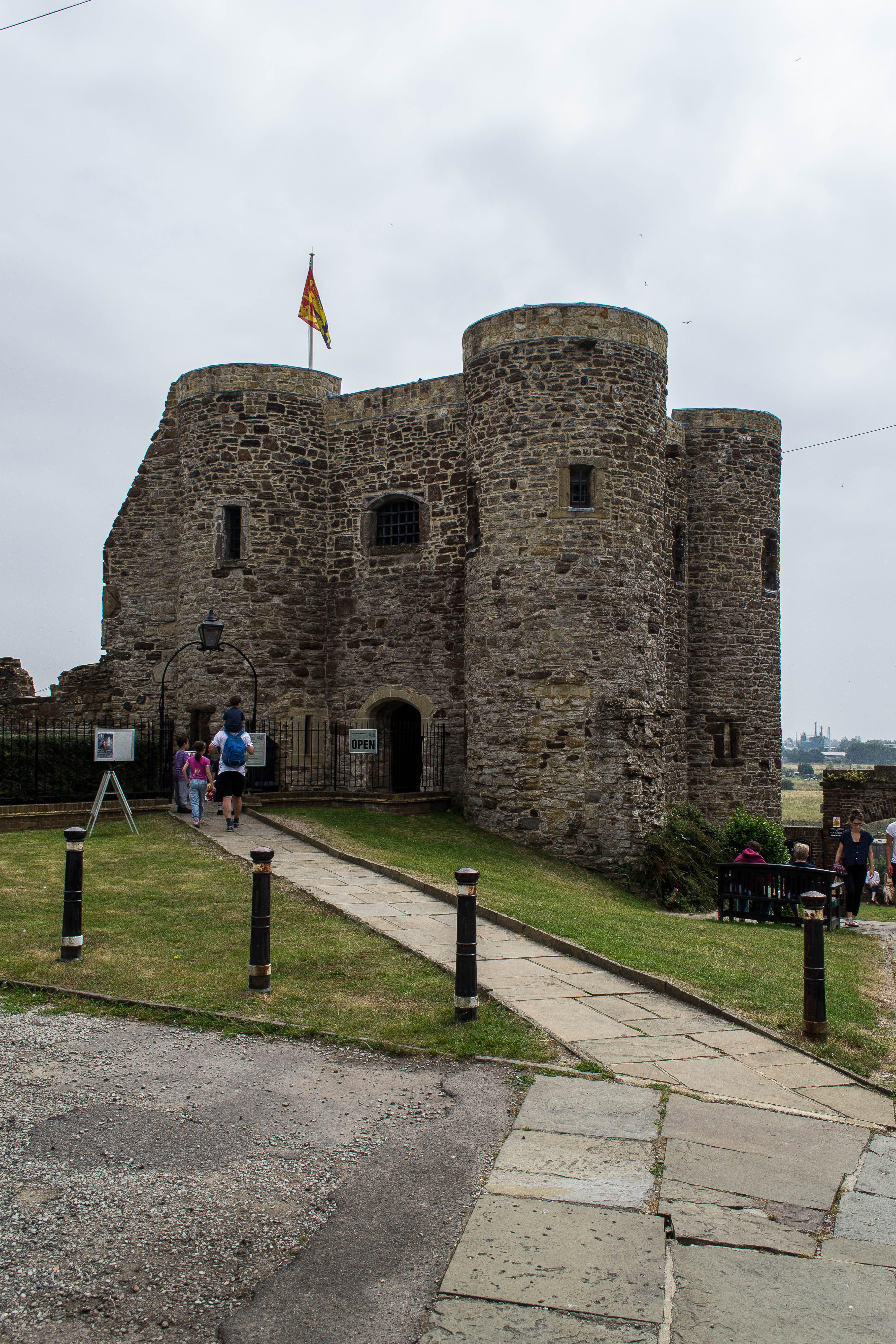 THE YPRES TOWER Wikidata has entry Q17535168 with data related to this building.